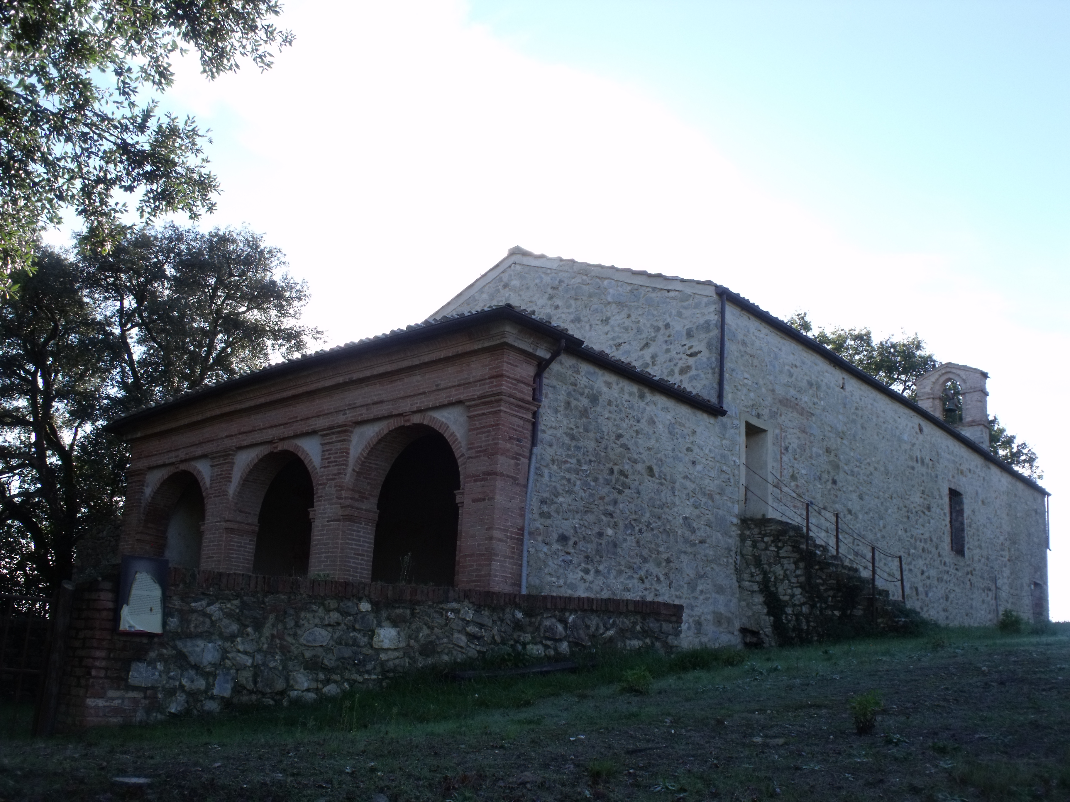 Church Pieve a Carli (Santa Maria a Carli) in Murlo, Province of Siena, Tuscany, Italy